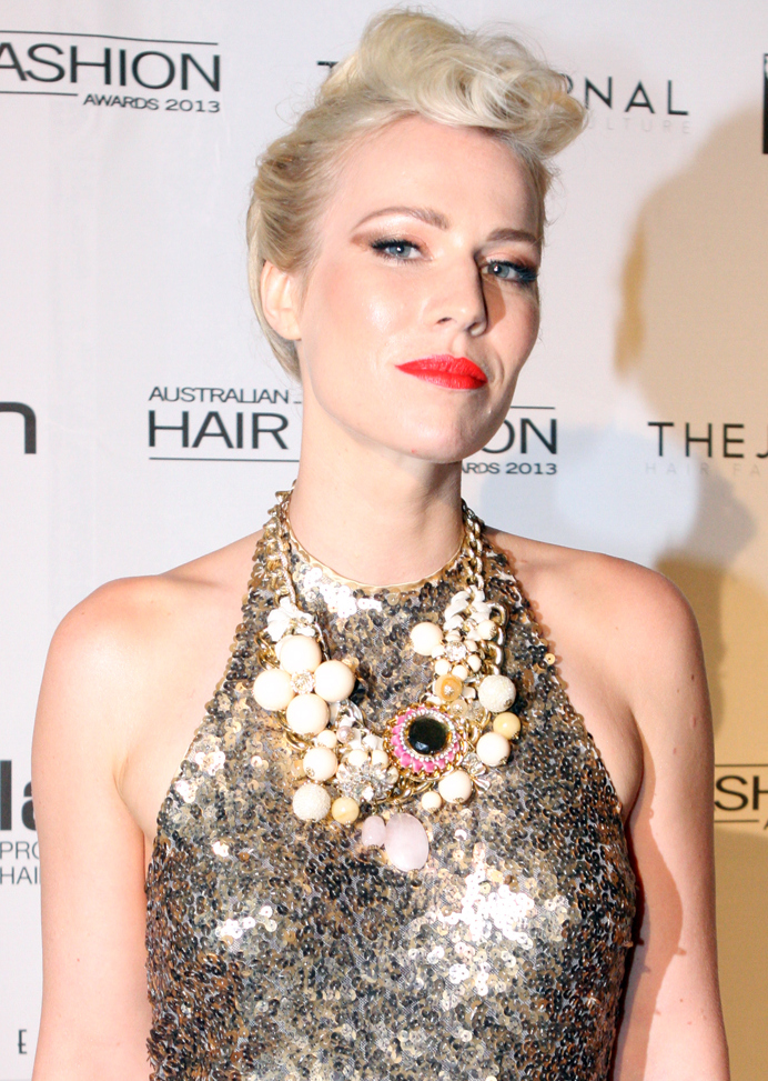 Natasha Bedingfield Attends the 2013 Australian Hair Fashion Awards.